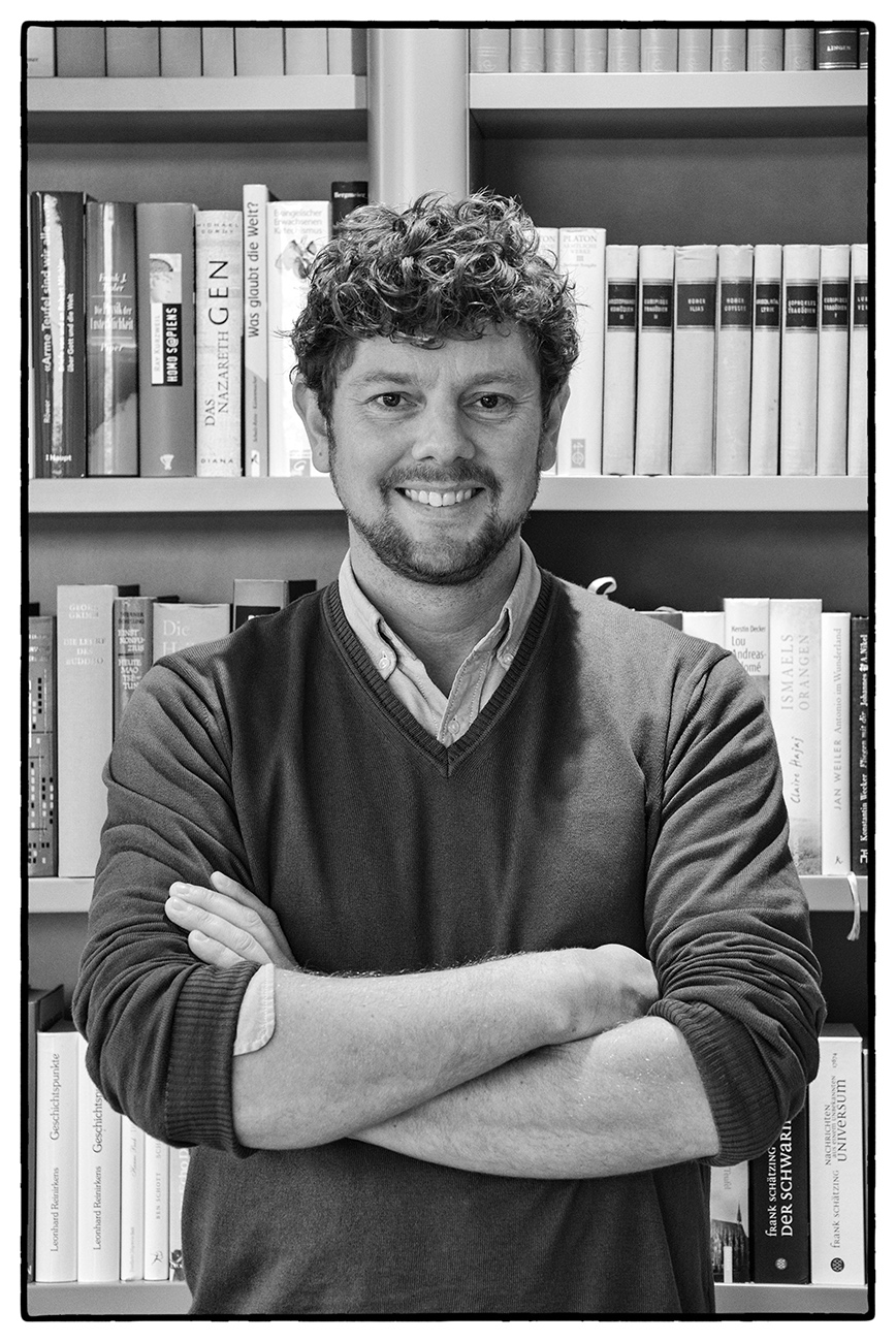 Lesung "Isch geh Bundestag" Philipp Möller Oberwesel Giordano-Bruno-Stiftung